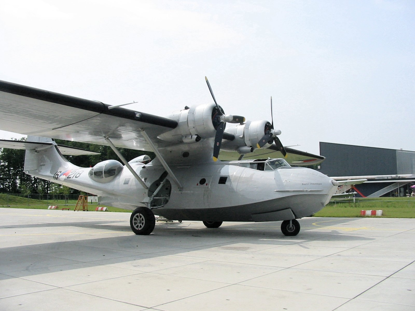 PBY Catalina aircraft Aviodrome Lelystad The Netherlands